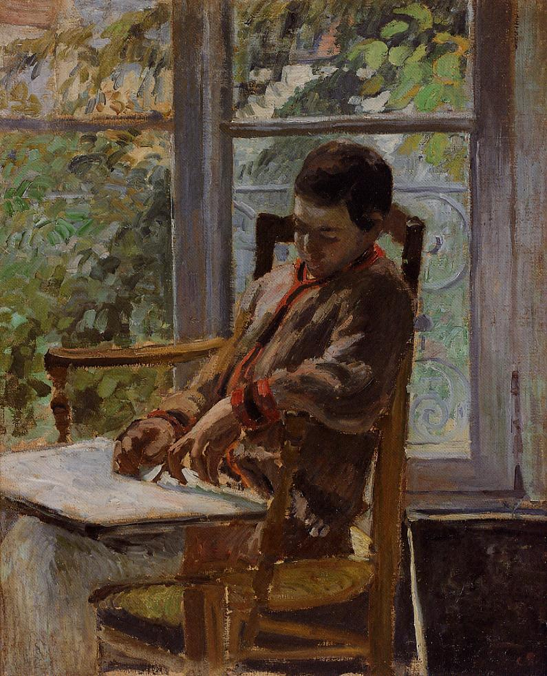 Portrait of Lucien Pissarro by his father Camille Pissarro